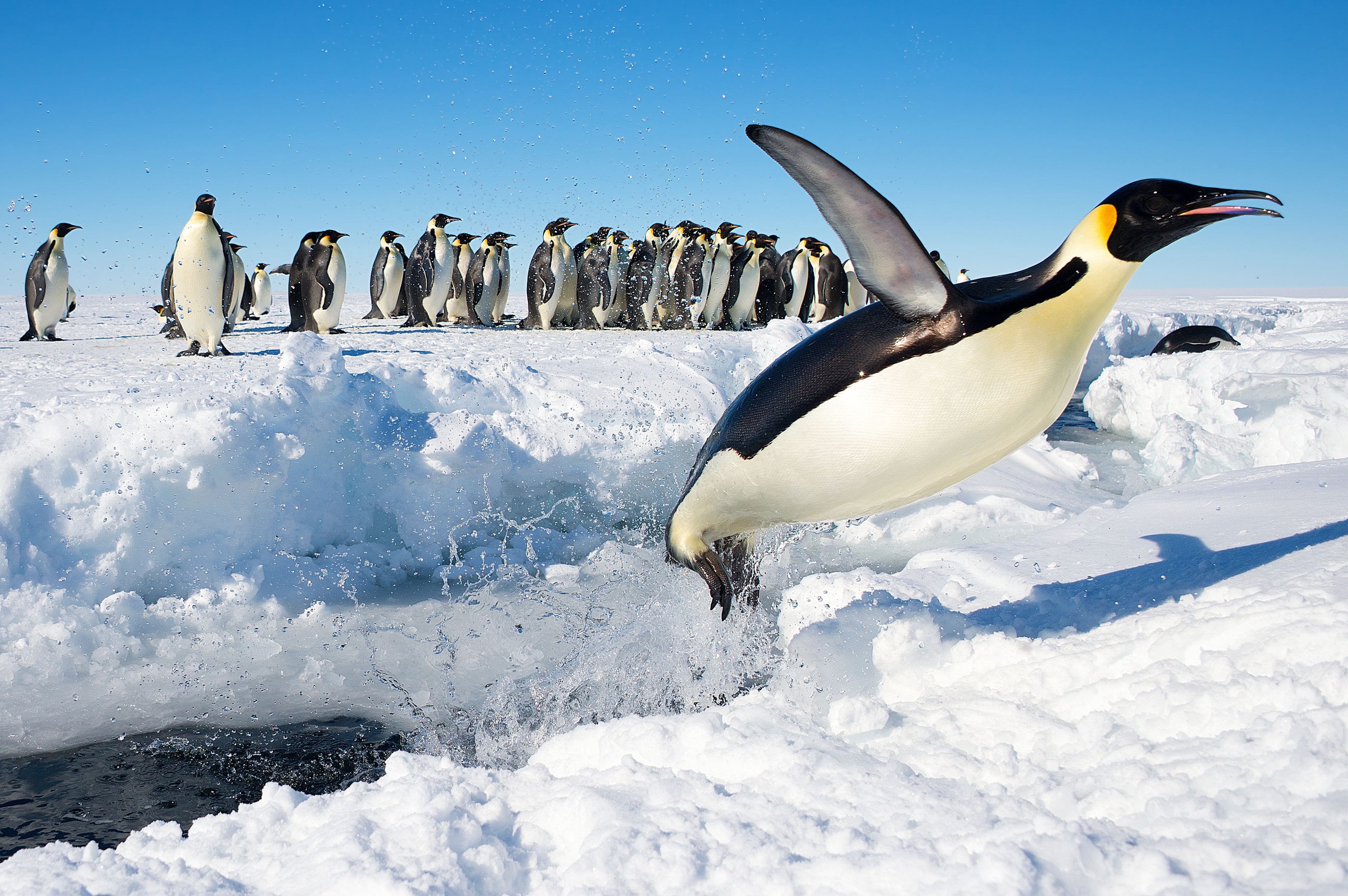 An Emperor Penguin (Aptenodytes forsteri) in Antarctica jumping out of the water.